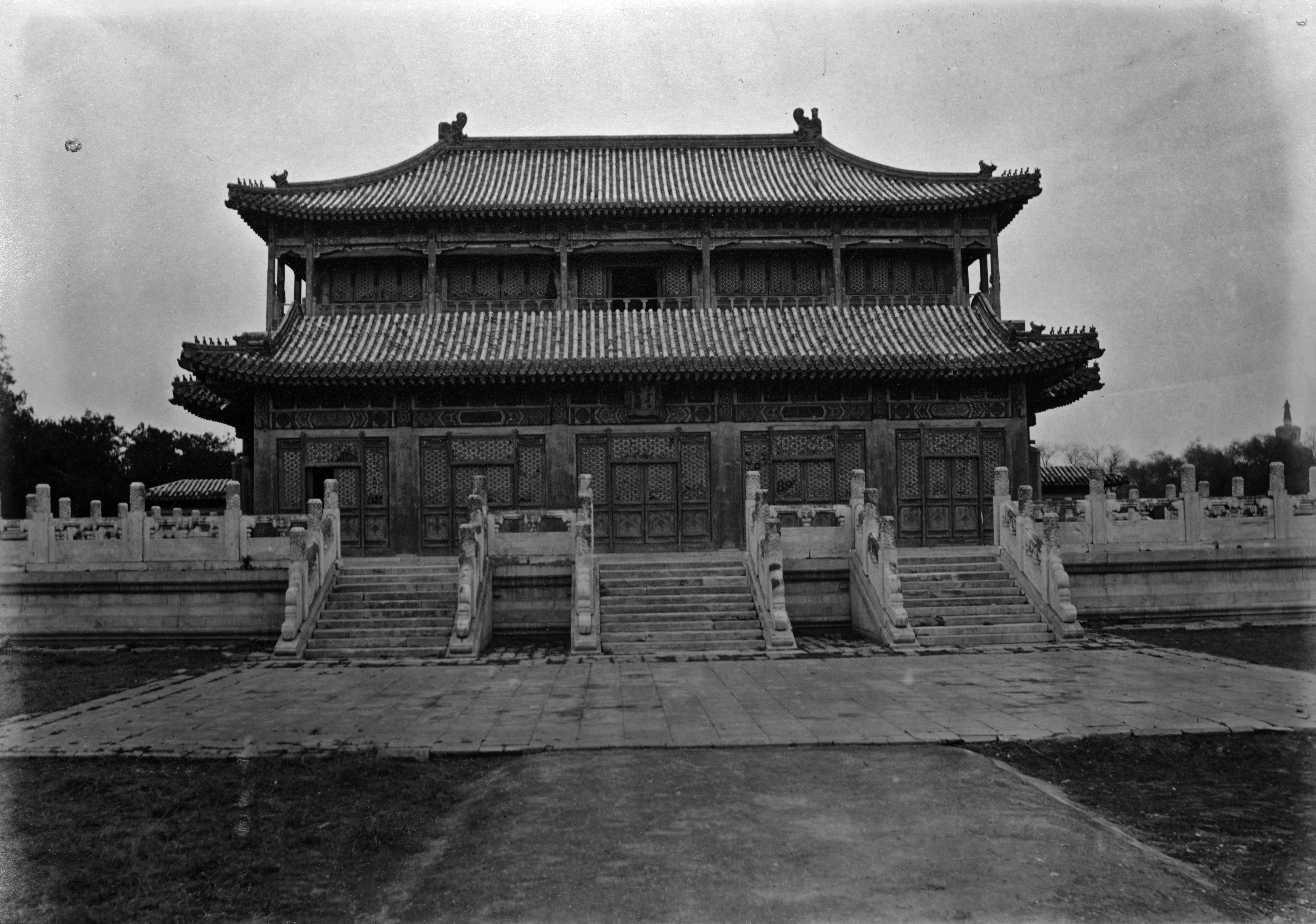 Photograph in Album of photographs of Peking and its environs.